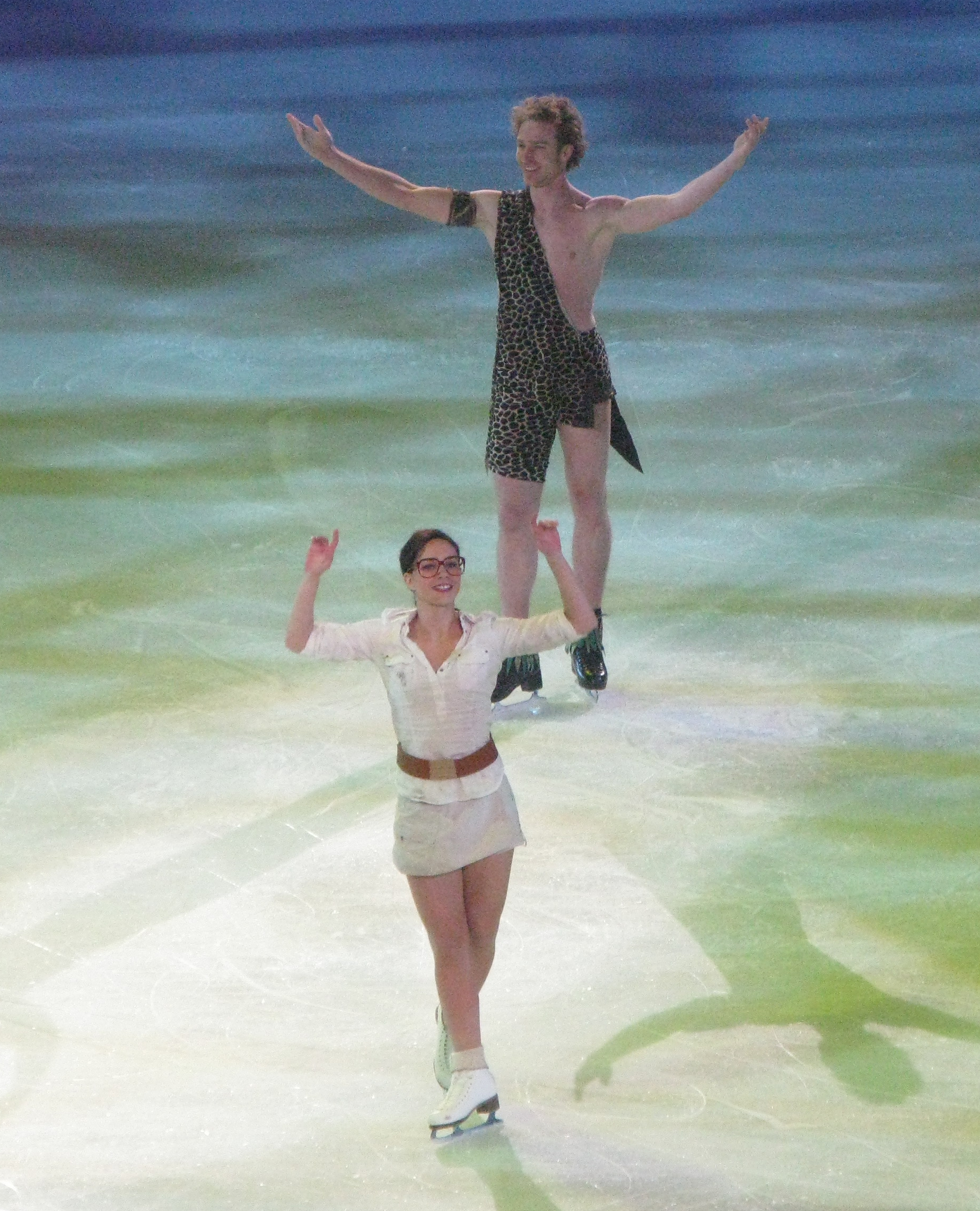 Skaters Nathalie Péchalat and Fabian Bourzat at the figure skating gala exhibition of 2010 Trophée Éric Bompard in Bercy, Paris.